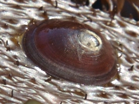 Discurria insessa, synonym: Lottia insessa. Also called the Seaweed limpet is seen here on Egregia (Feather Boa Kelp). It leaves scars which are easy to spot. Locality: Locality: Hazard Reef, which is about 2 miles just inside the MDO (Montana de Oro sign which is just a few miles from Los Osos.